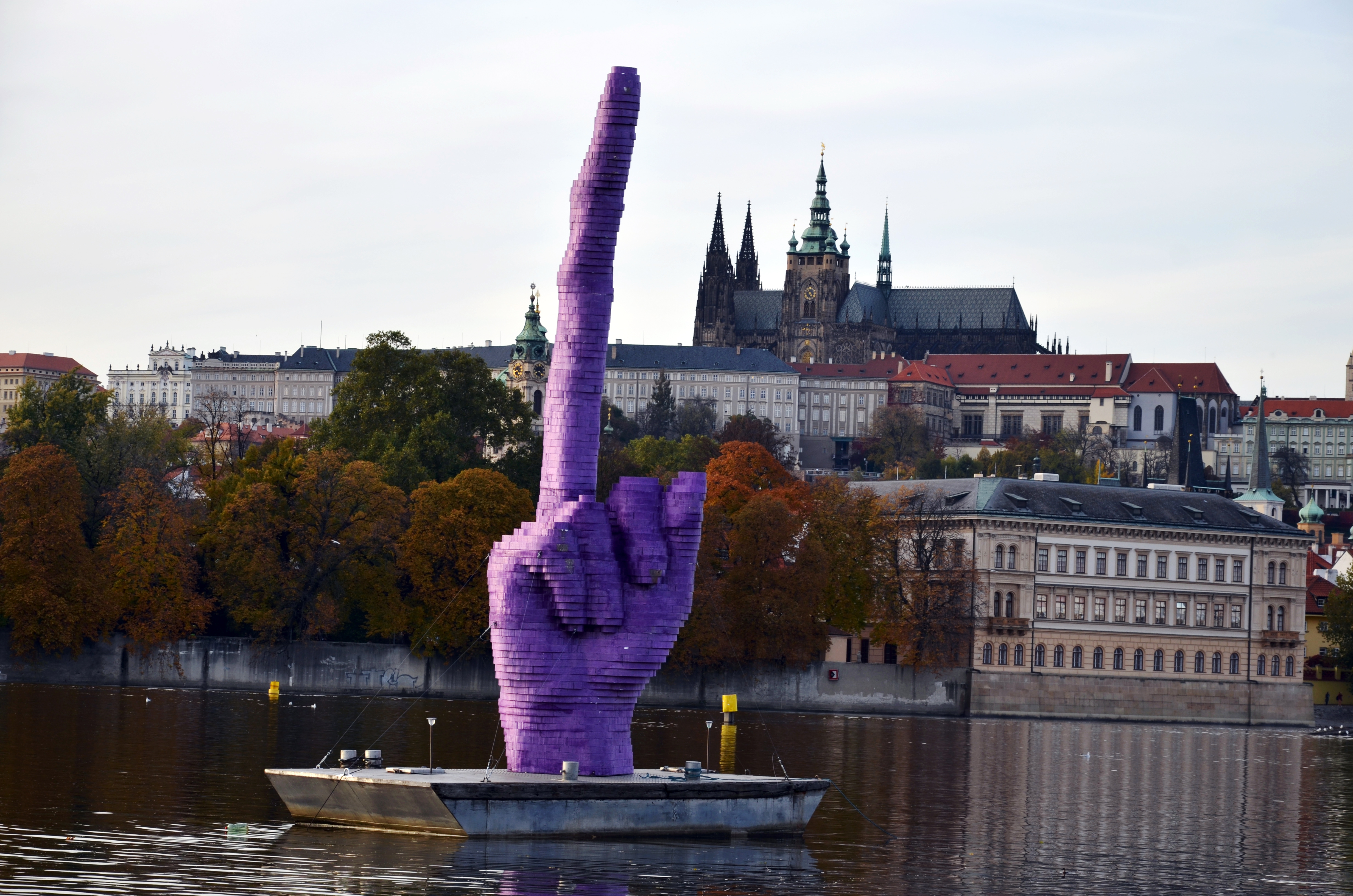 Gesture, by Czech sculptor David Černý. October 21, 2013, Prague